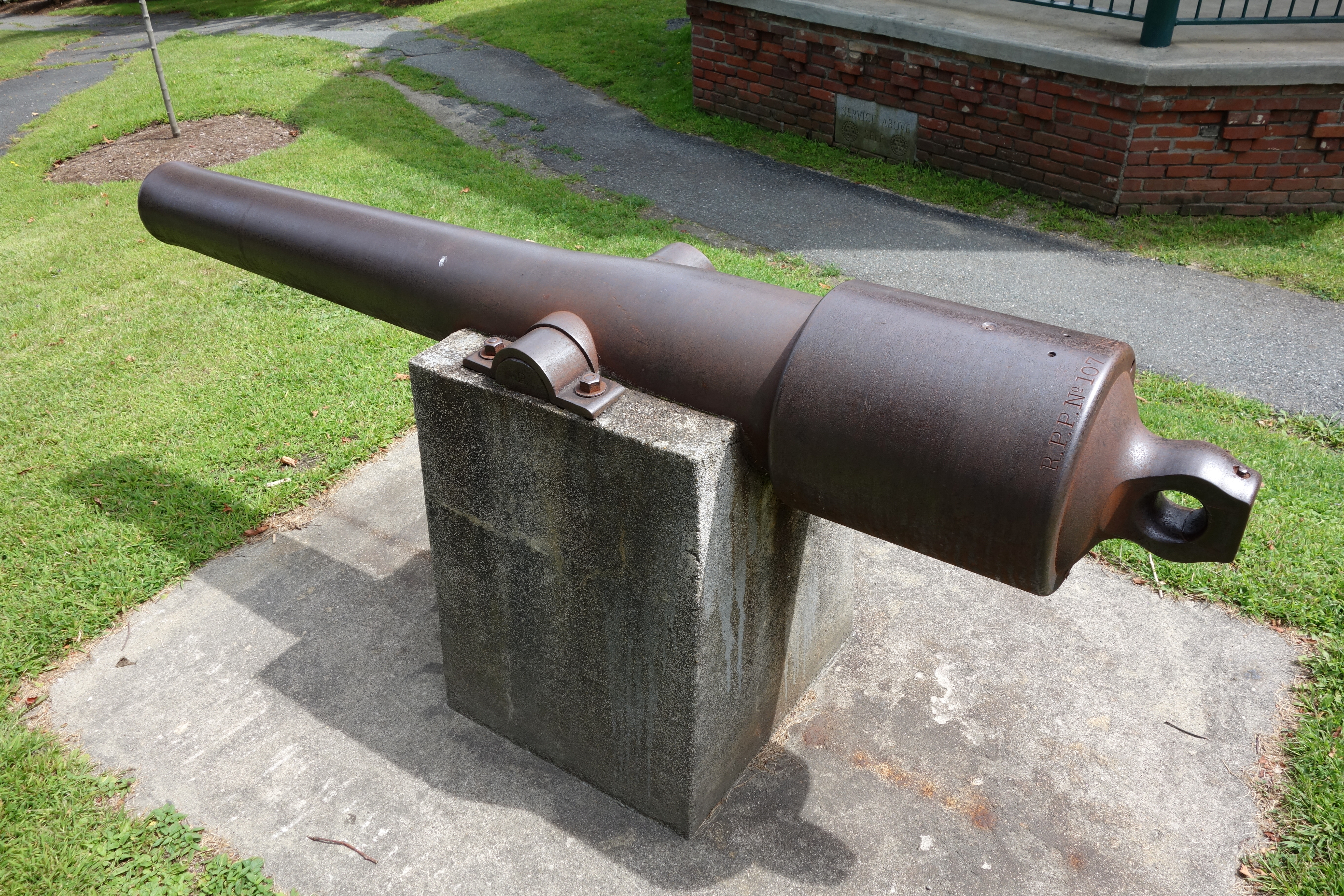 Parrott gun No. 107, from USS Kanawha - St. Johnsbury, Vermont, USA.